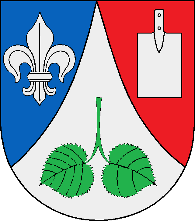 Coat of arms of the municipality Negenharrie in Schleswig-Holstein, Germany.